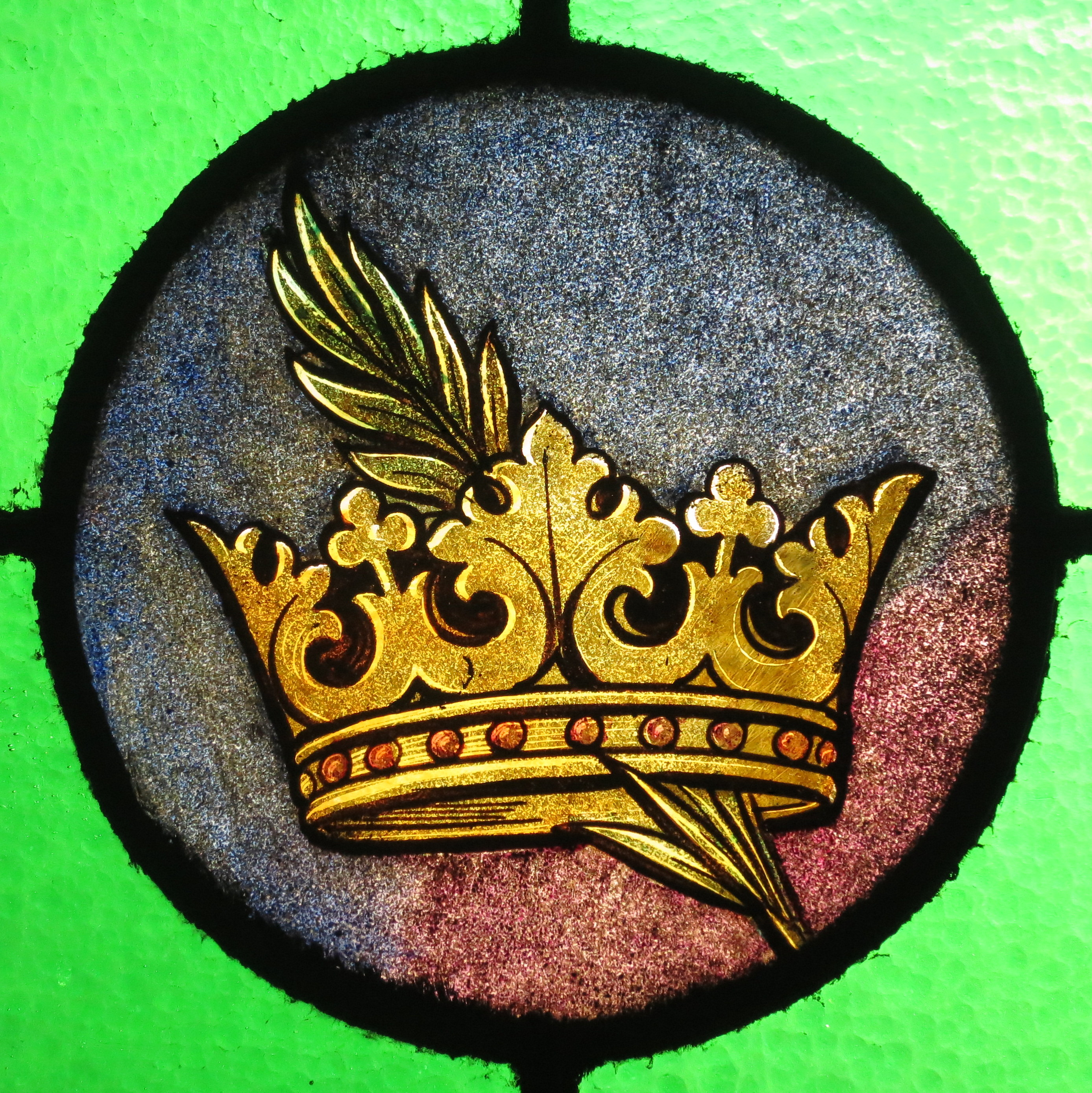 Immaculate Conception Catholic Church (Knoxville, Tennessee) - stained glass, Crown of Martyrdom